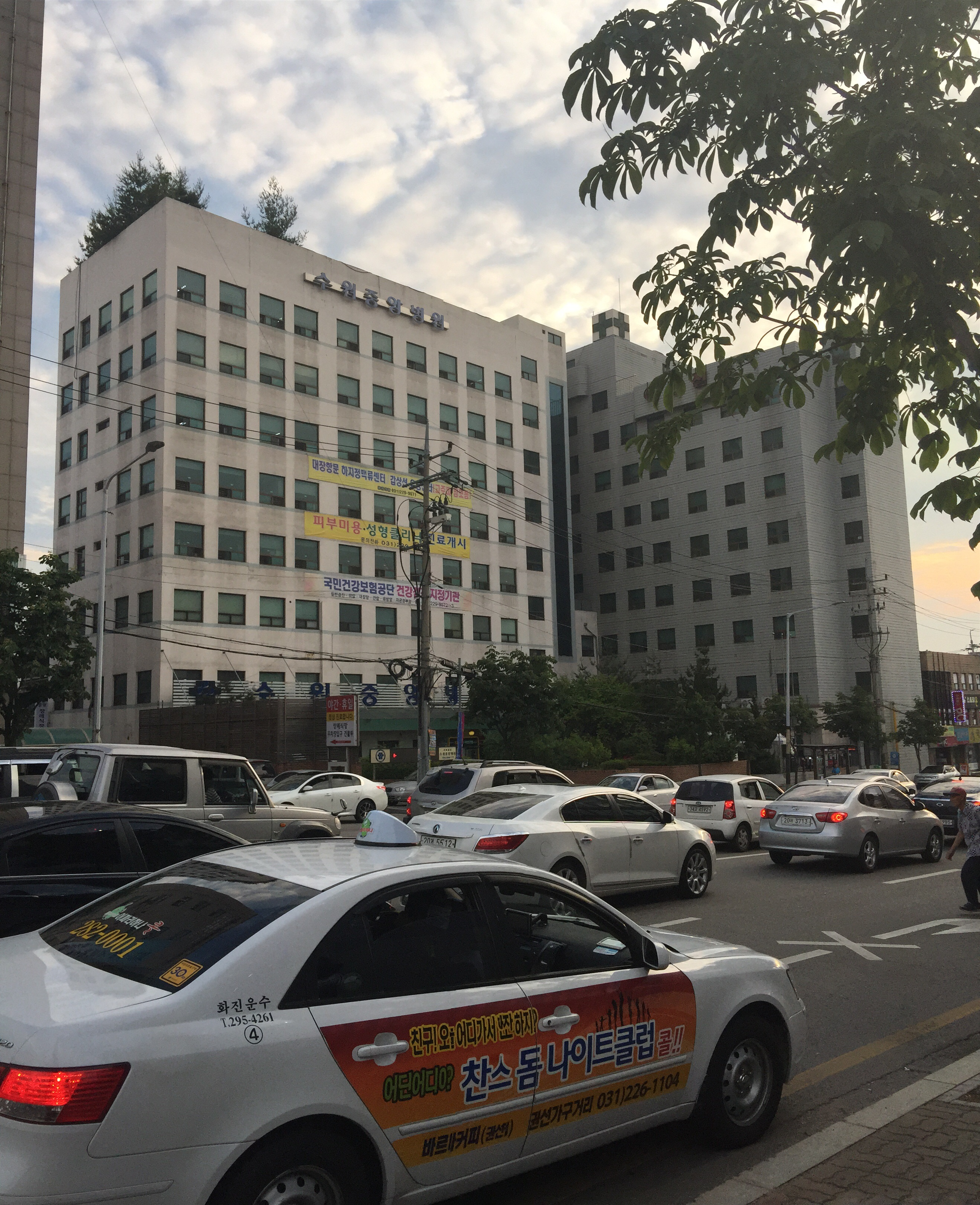 Cheongpa Medical Foundation in Suwon, Gyeonggi-do, South Korea